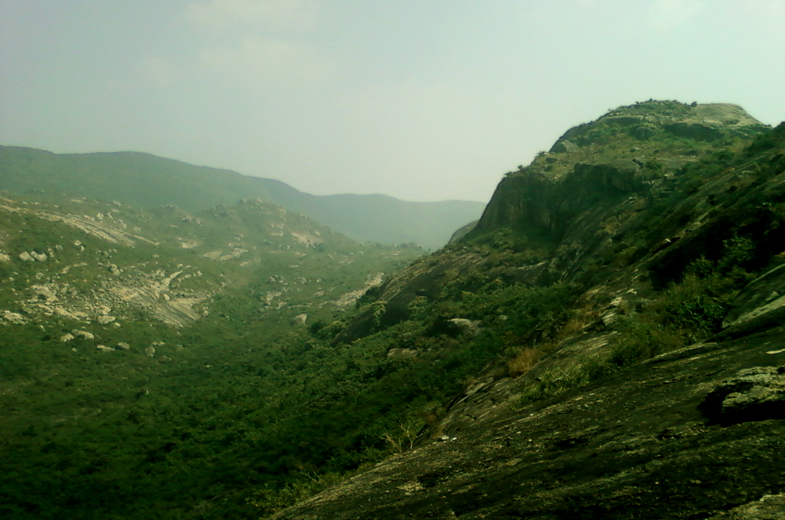 Ramatheertham in Vizianagaram district